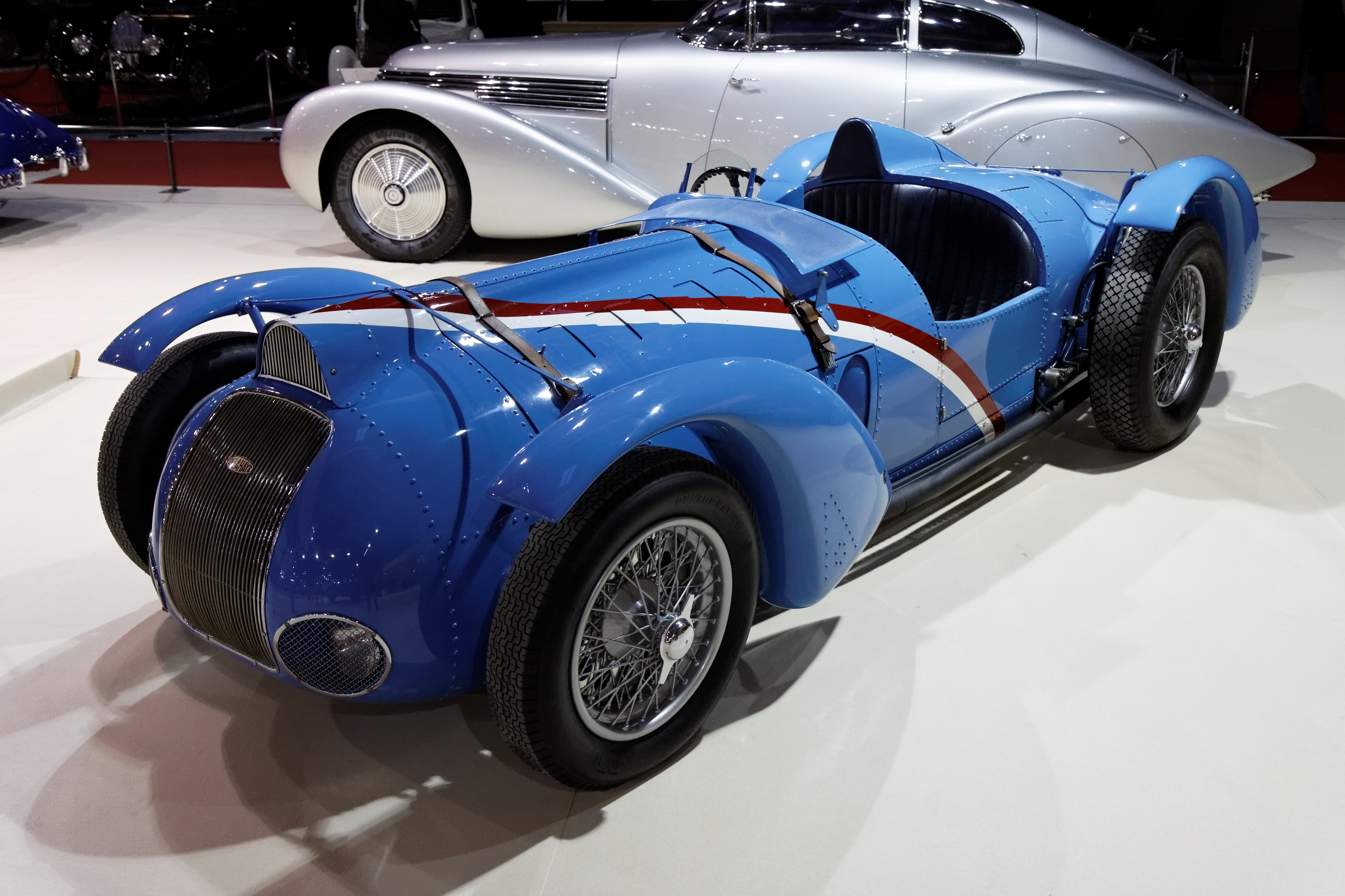 Delahaye V12 type 145